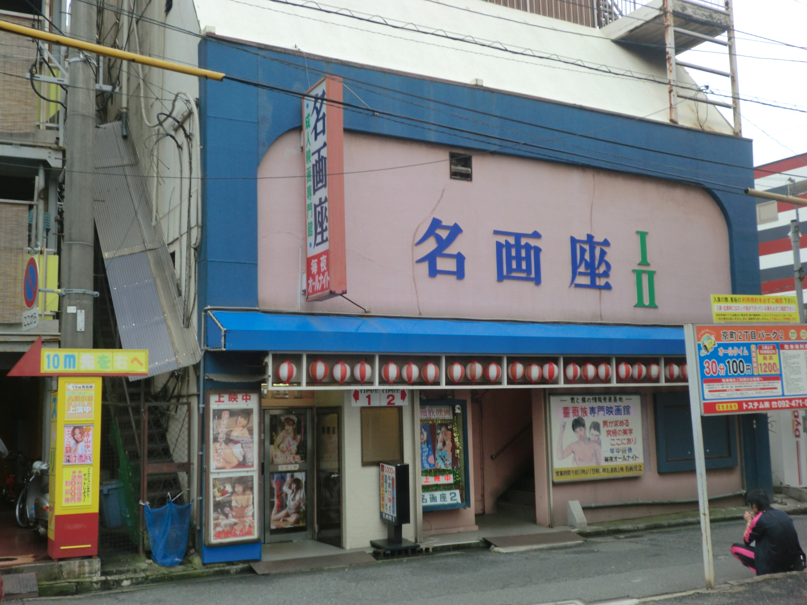 "Kokura Meigaza"(gay cinema hall) near Kokura station at Kitakyushu,Fukuoka,Japan.